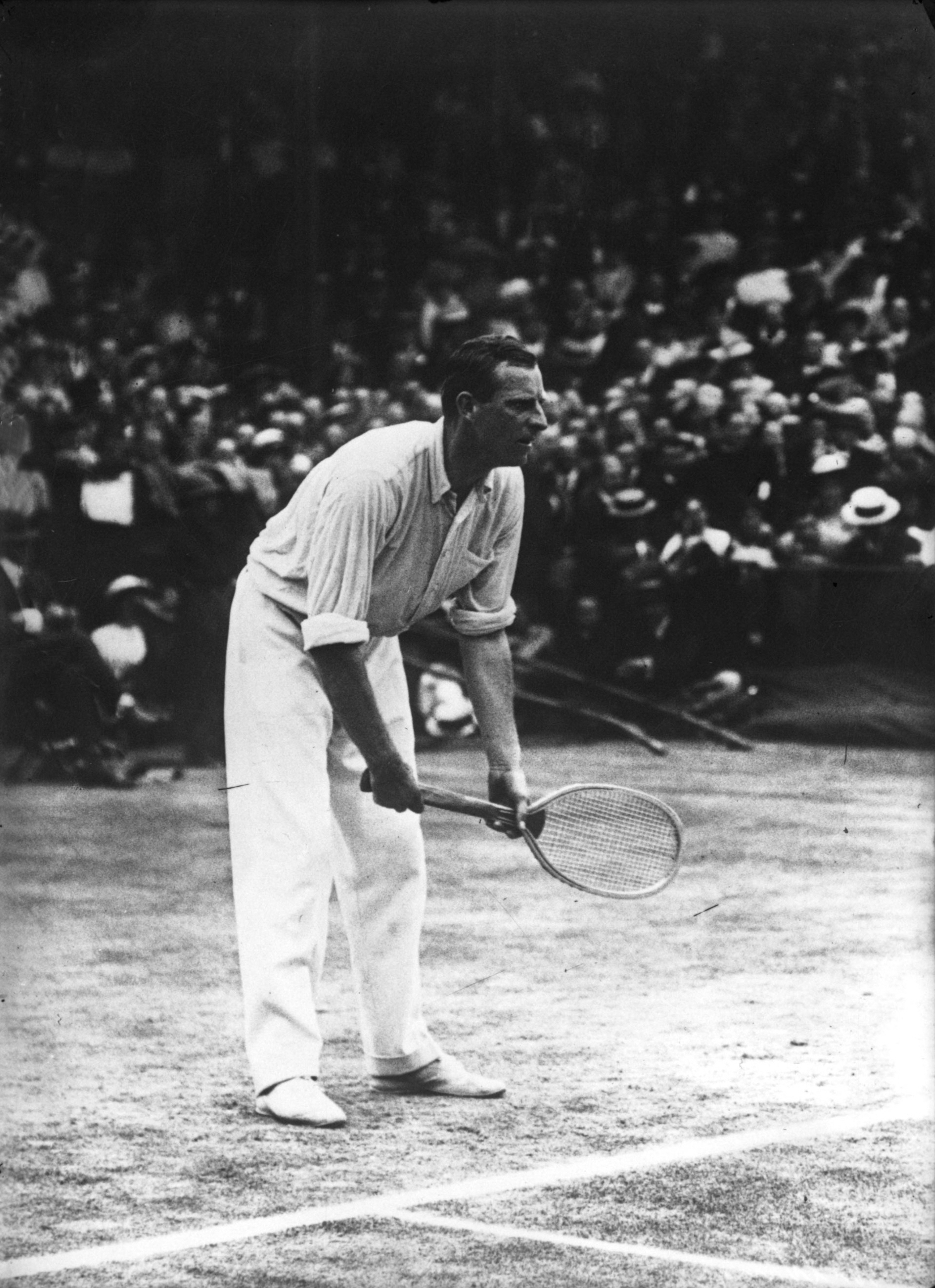 New Zealand tennis player Anthony Wilding at the 1913 Wimbledon Championships Challenge Round match